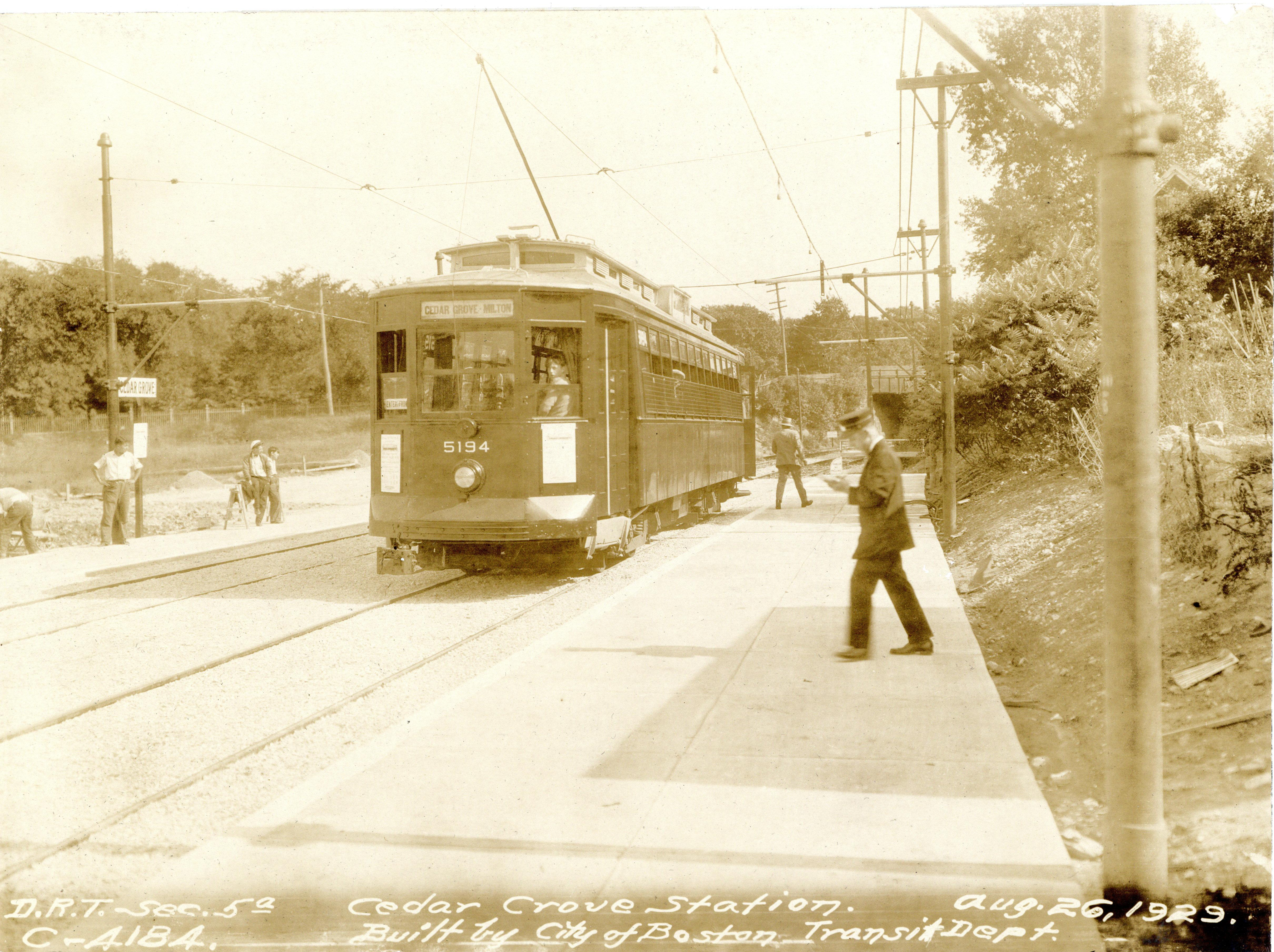 An outbound car at Cedar Grove station on the first day of operations from Ashmont to Milton